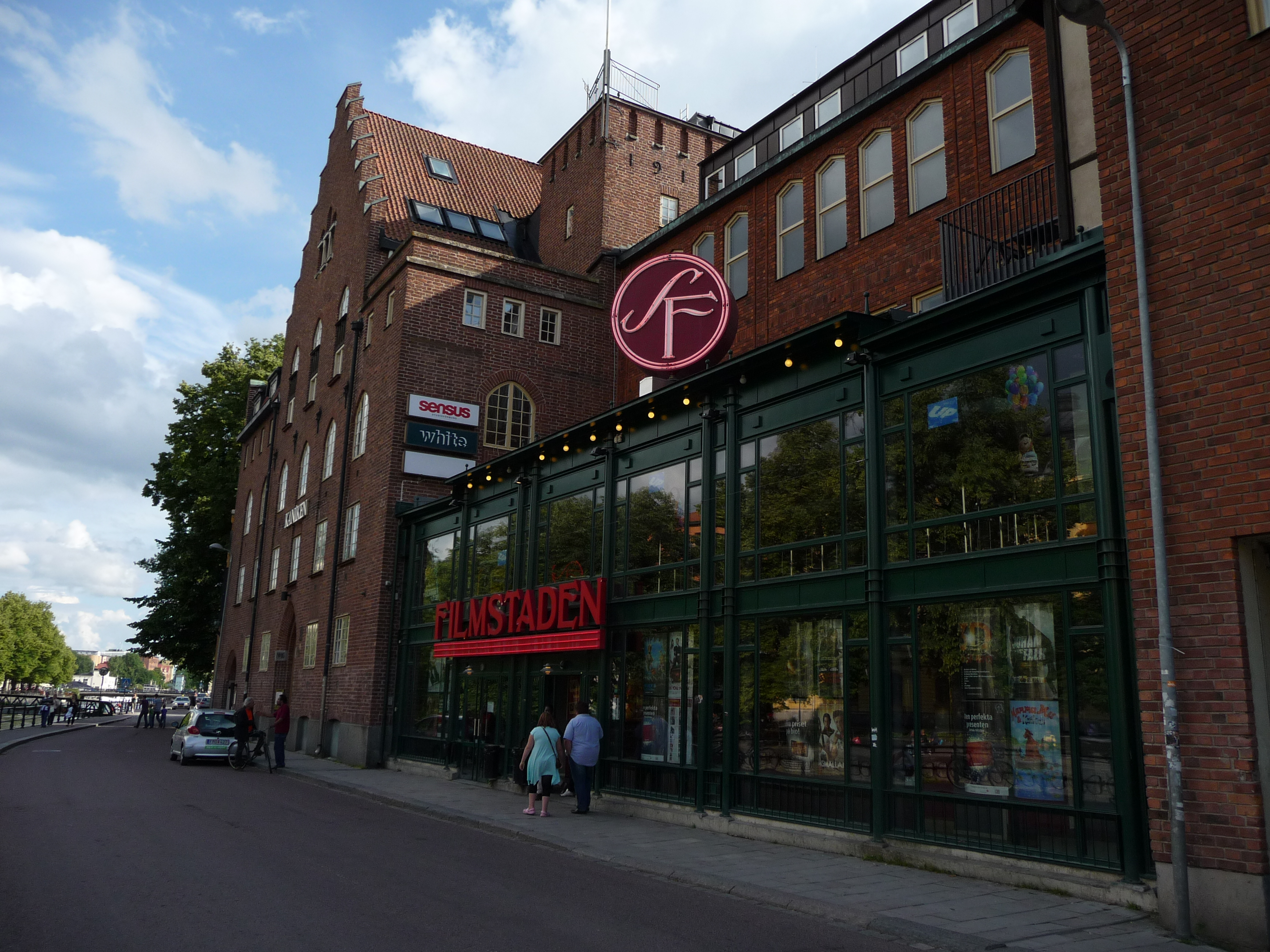 SF Filmstaden, Uppsala